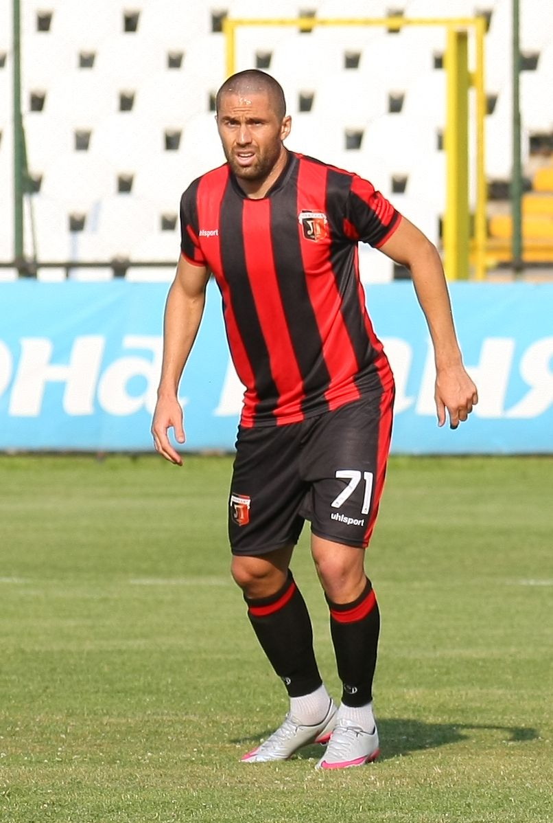 Plamen Asenov Krumov (Bulgarian: Пламен Крумов; born 4 November 1985) is a Bulgarian footballer who plays for Arda Kardzhali. In the early years of his career, he usually played as a winger, but has later been converted to right-back.